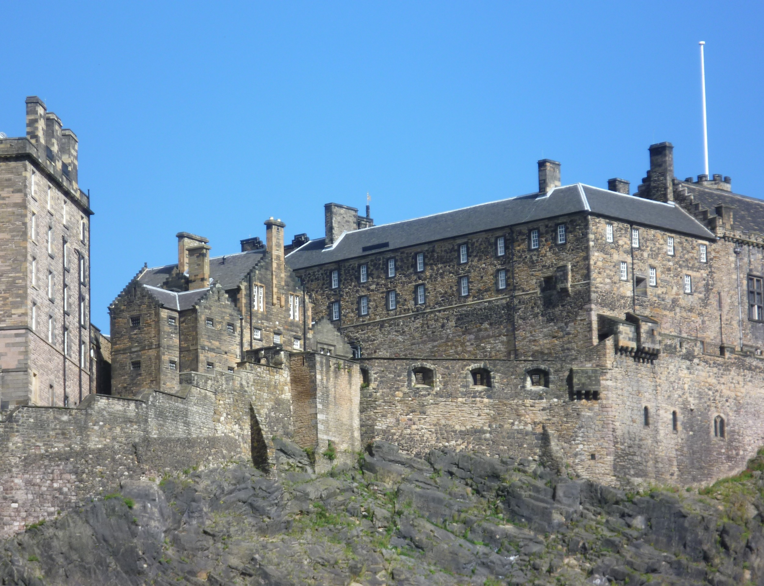 Showing a gable of the 18thC New Barracks on the left and the Queen Anne Building centre-right.